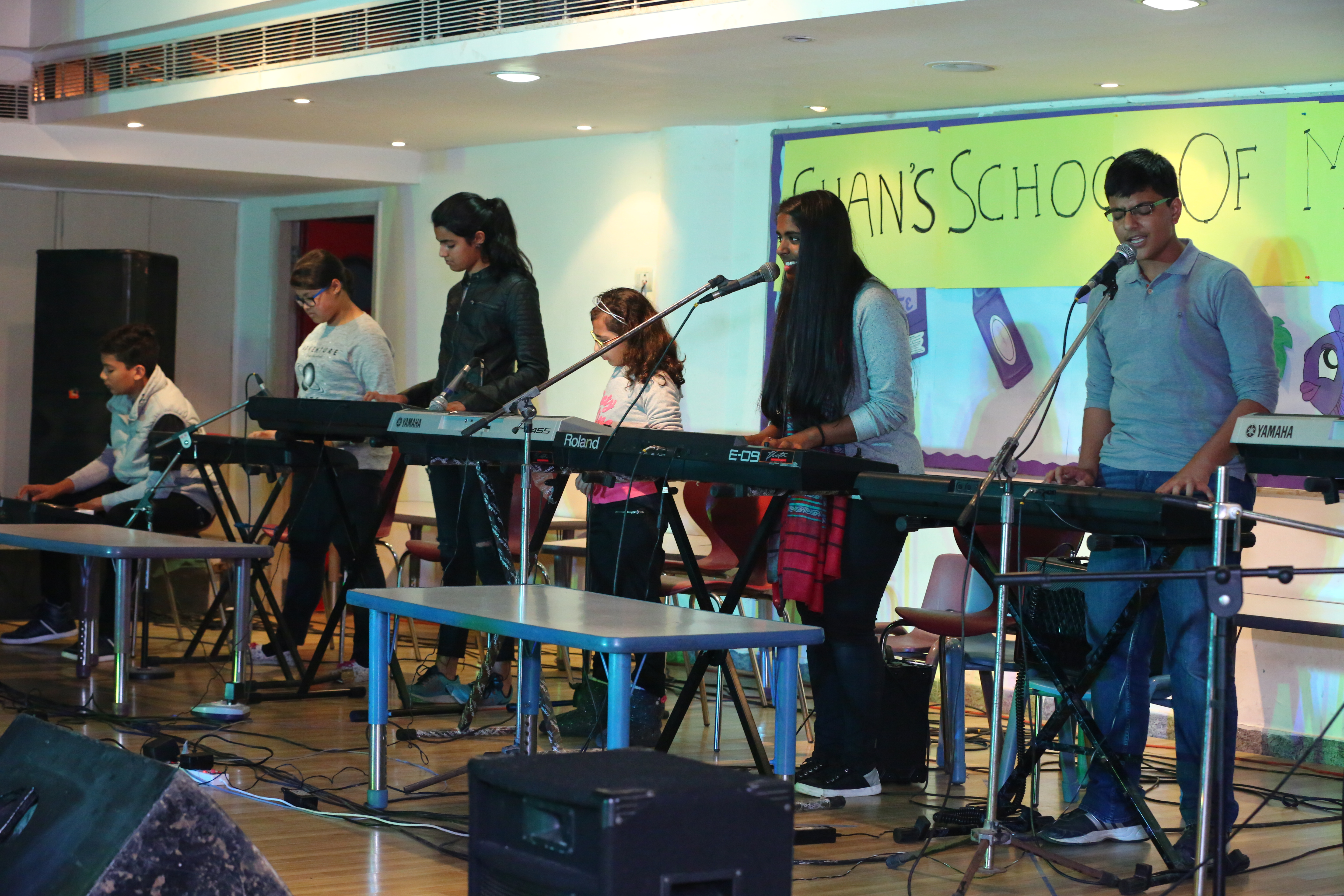 Shan's School of Music in Delhi and Gurgaon: A group of young vocalists and musicians (house music) with keyboards, maybe future singer and songwriters, Vocal coaching with a Voice Teacher.